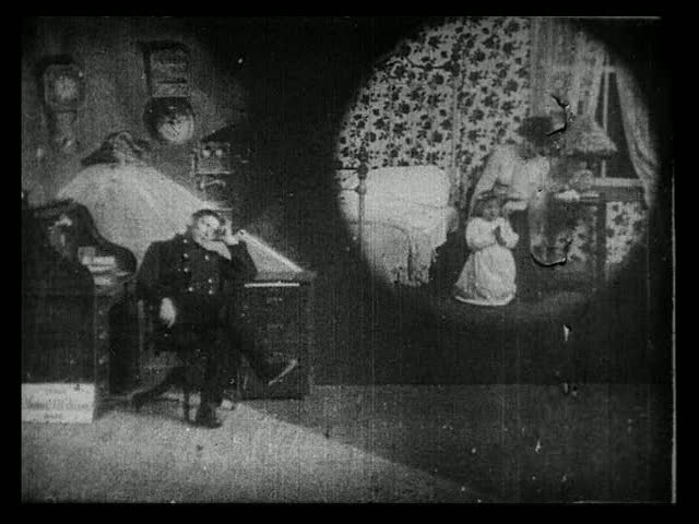 Screenshot from Life of an American Fireman, made by Edwin S. Porter for the Edison Manufacturing Company. Released in 1903.